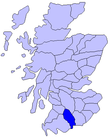 Map showing the historic district of Nithsdale in Scotland.